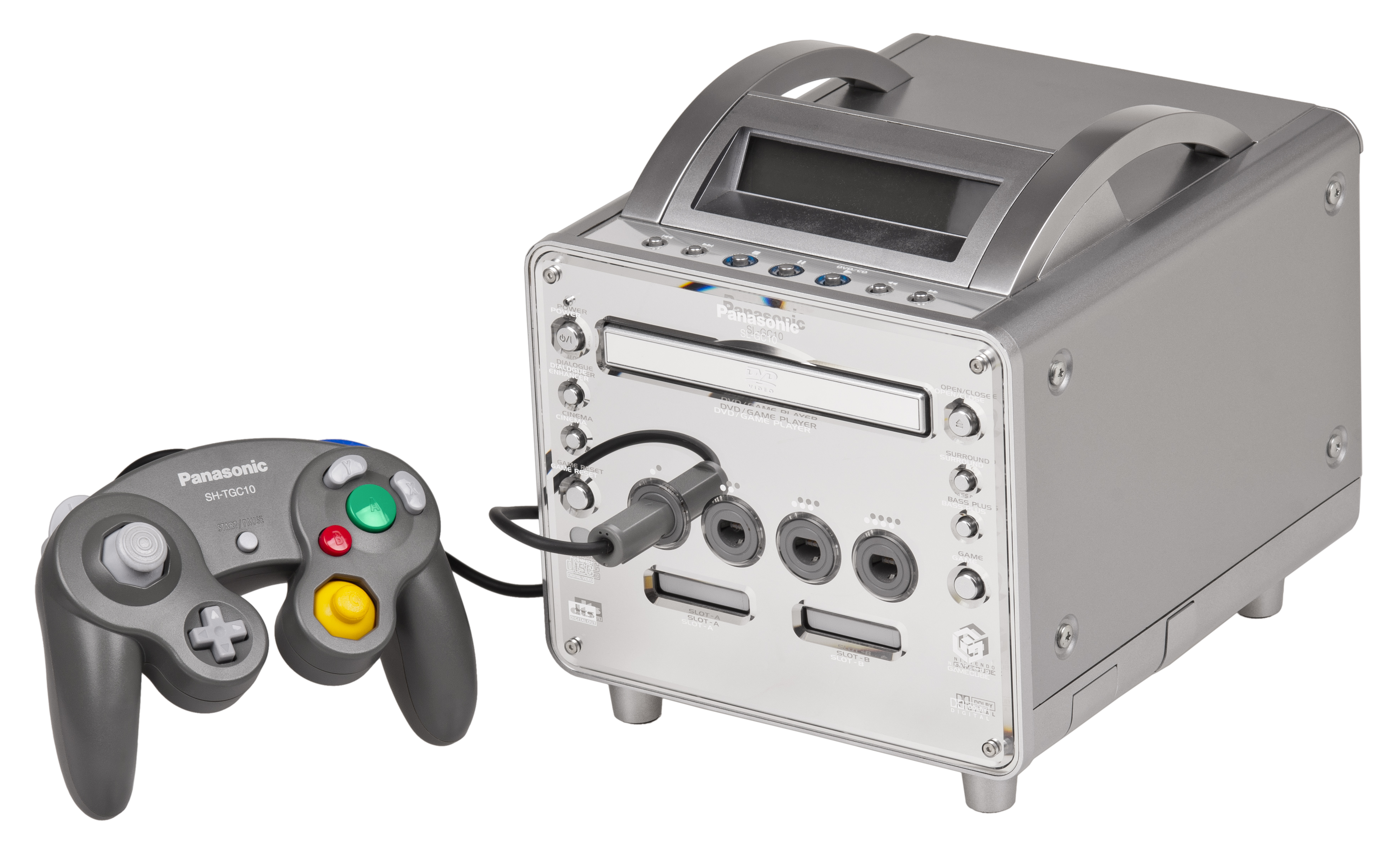 A Panasonic Q video game console. A limited edition and high-end GameCube that was released only in Japan and could play DVDs.